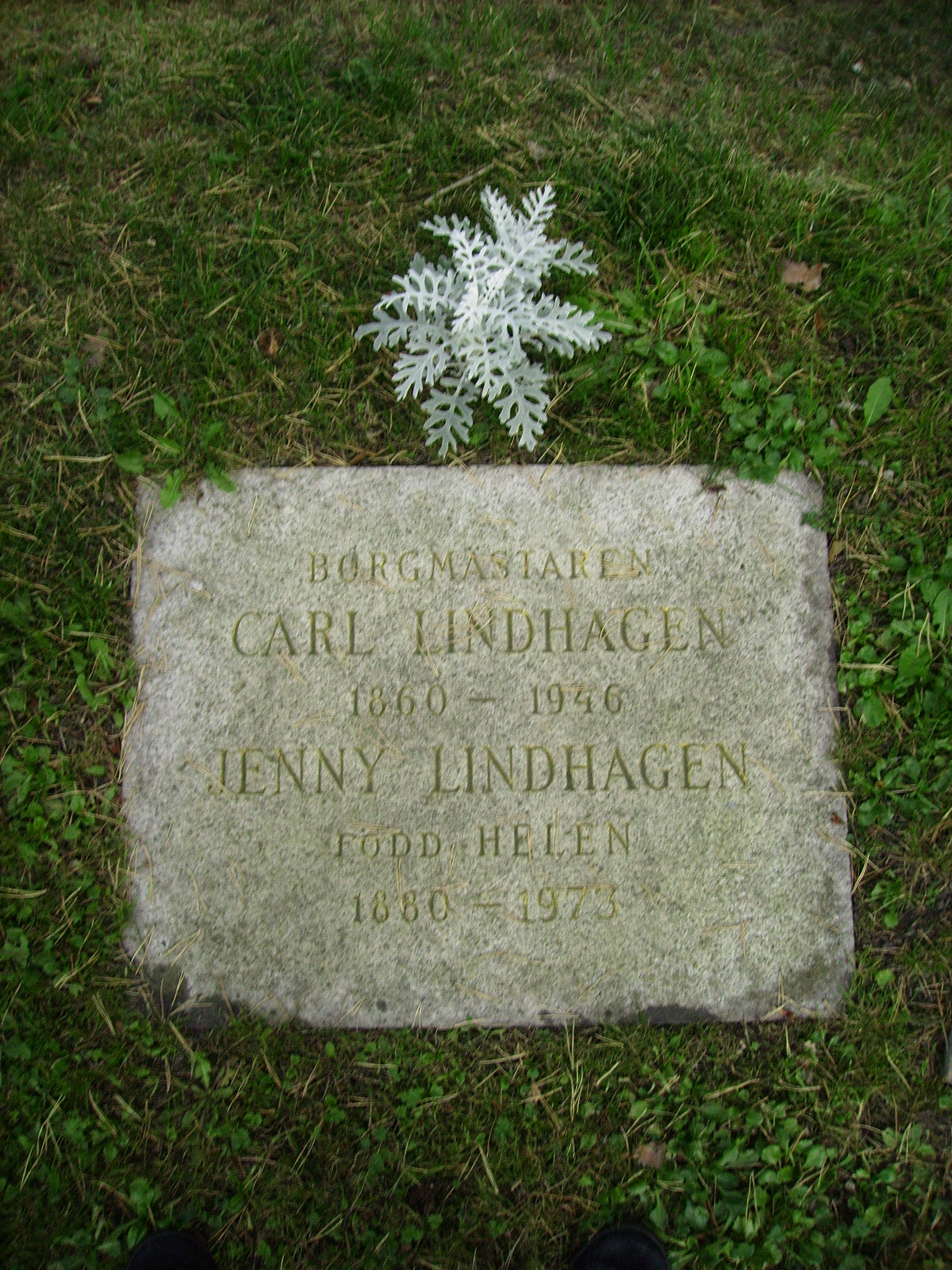 Picture of Carl Lindhagen's grave at Norra begravningsplatsen in Stockholm